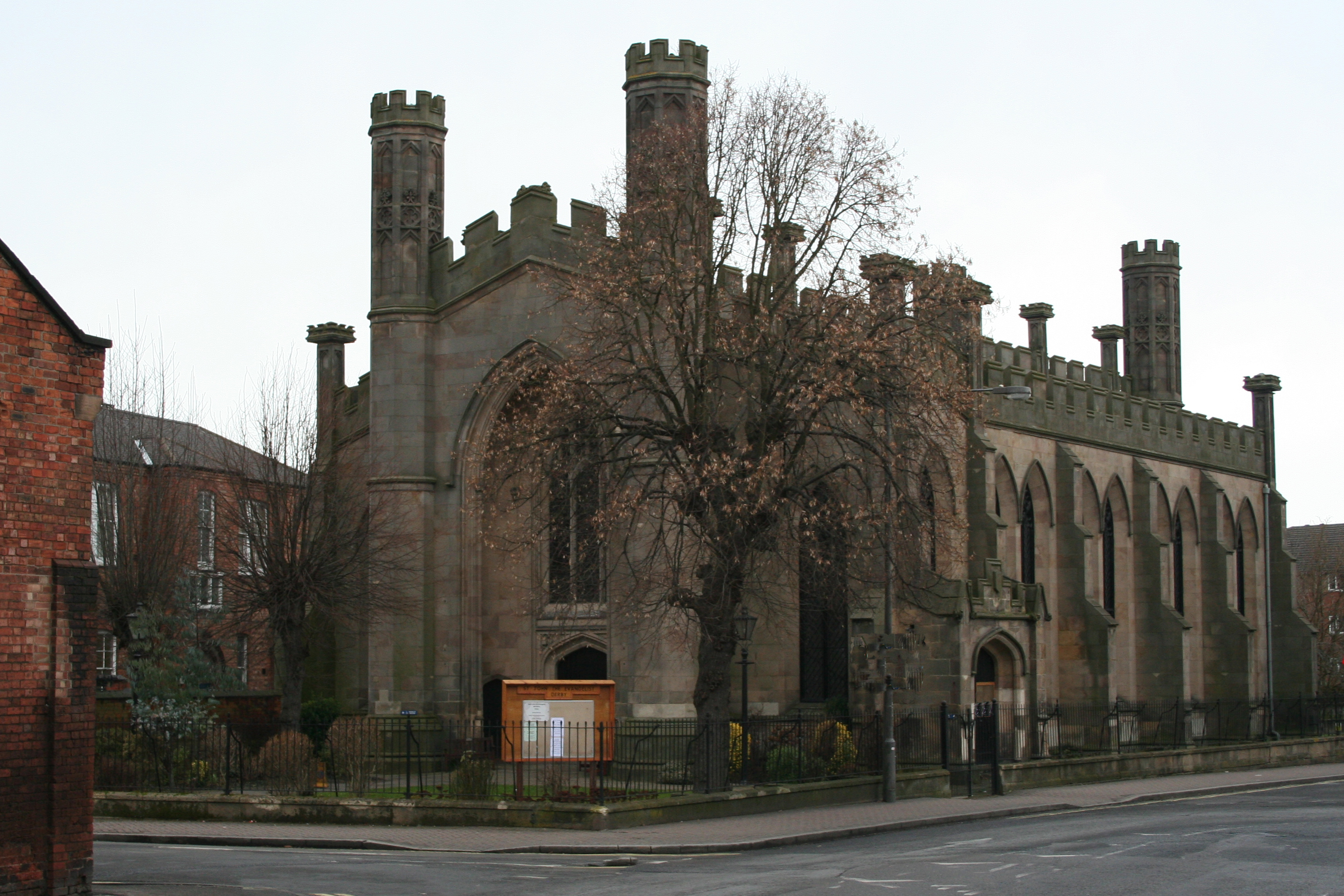 Church of Saint John the Evangelist, Derby, UK